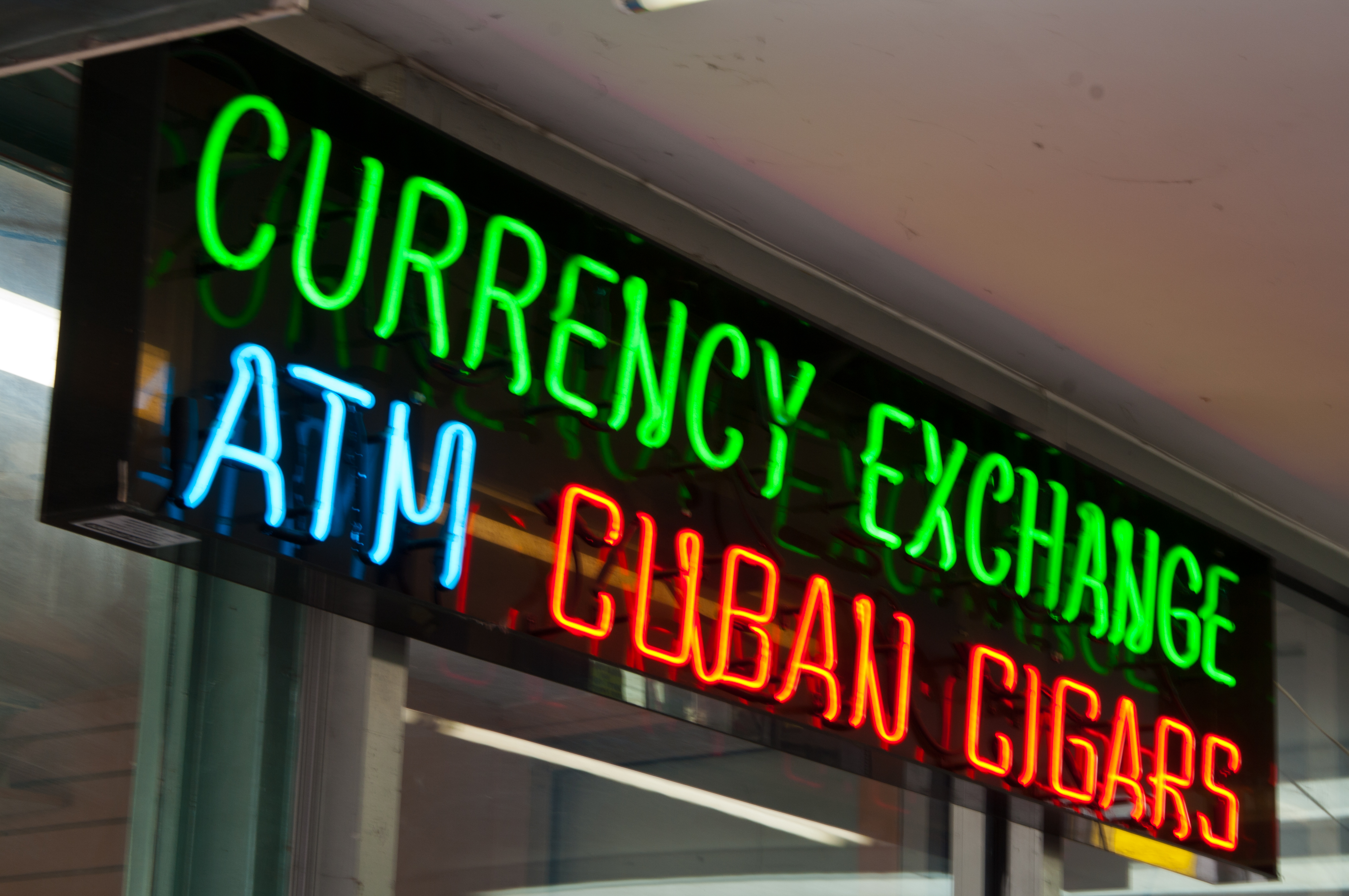 Sign for ATM/Currency Exchange/Cuban Cigars in Niagara Falls, Ontario